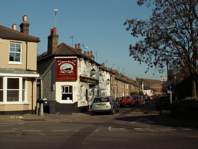 'The Royal Steamer' public house This view is looking down Townfield Street.